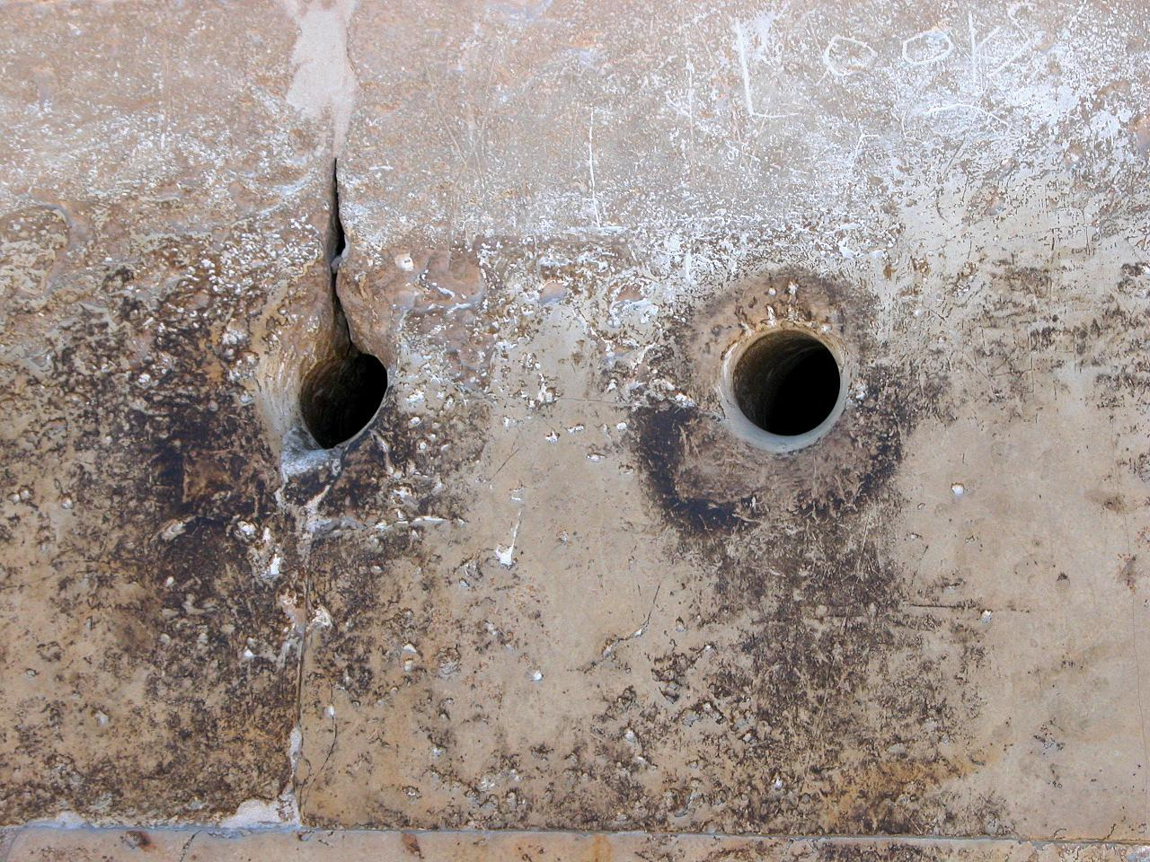 These two holes were meant to allow the statue of the king to see the abundant offerings that were brought before him, or see the circumpolar stars to which it was believed that Netjerikhet would be joined after his death.